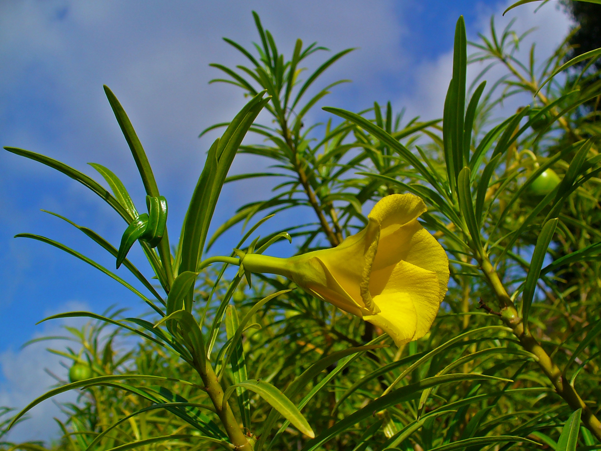 Yellow Oleander, Flower (lateral) and leaves; Jardín Botánico Canario Viera y Clavijo, Tafira Alta, Gran Canaria, Spain.